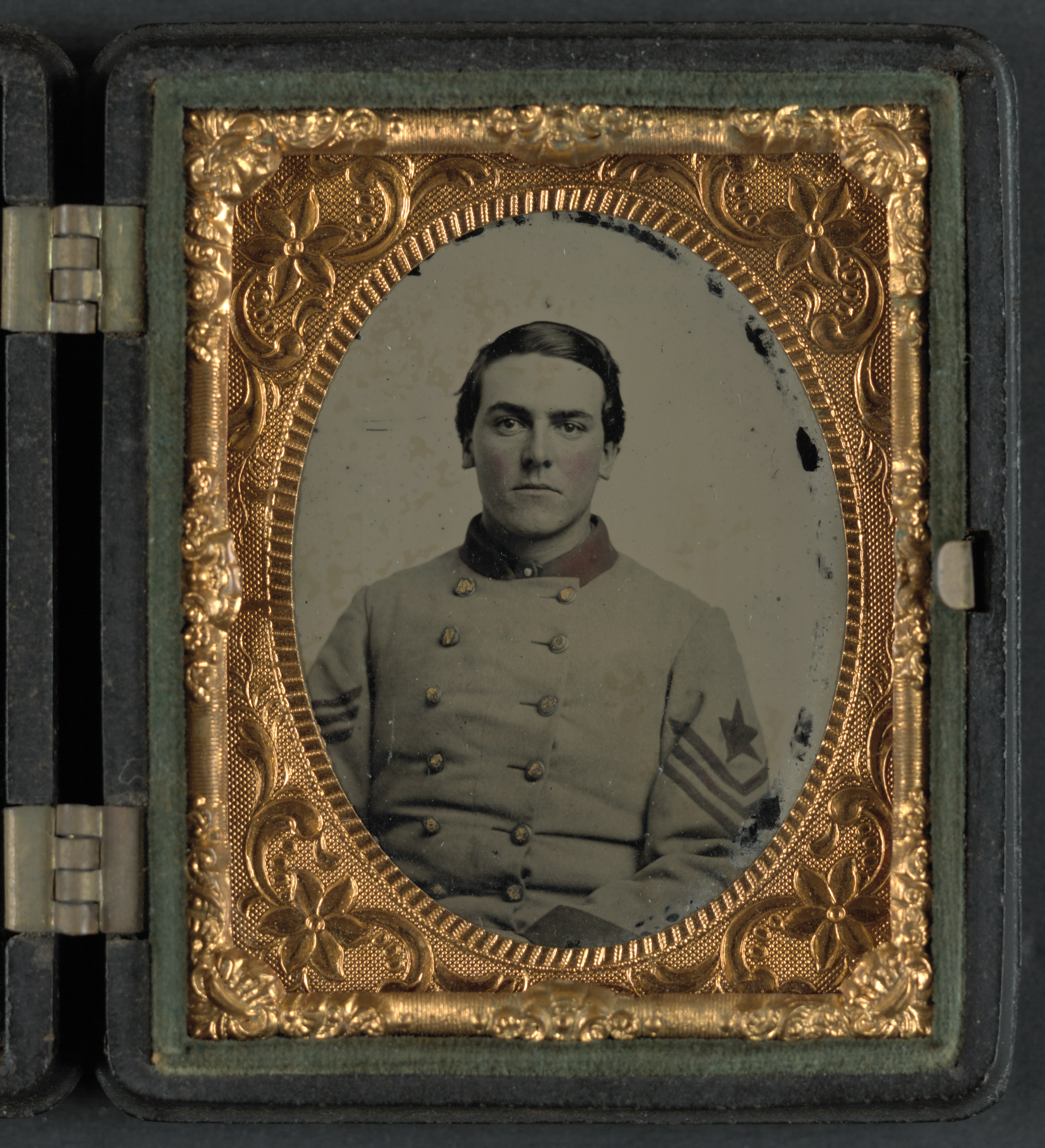 Title: Lieutenant William Sharpe Barnes, F Company, 4th North Carolina Infantry in frock coat Abstract/medium: 1 photograph : ninth-plate ambrotype, hand-colored ; 7.5 x 6.4 cm (case) + 1 manuscript.